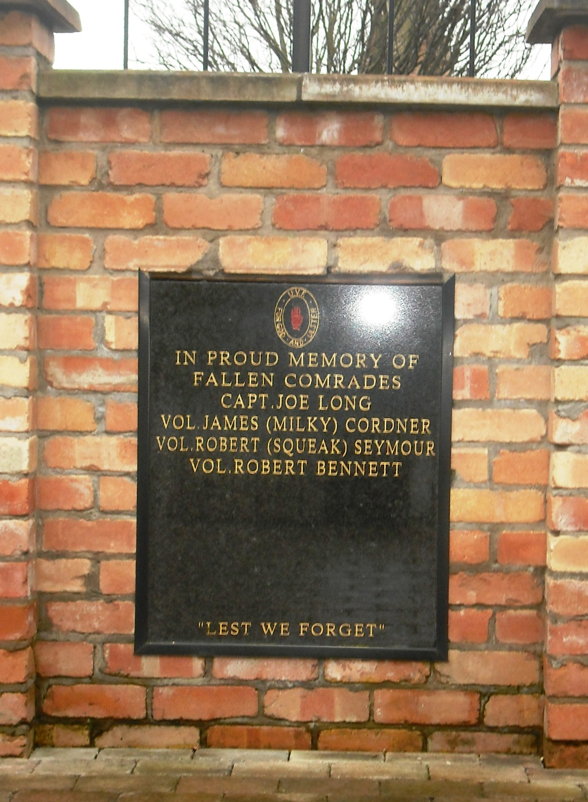 Memorial stone for a number of UVF members in East Belfast